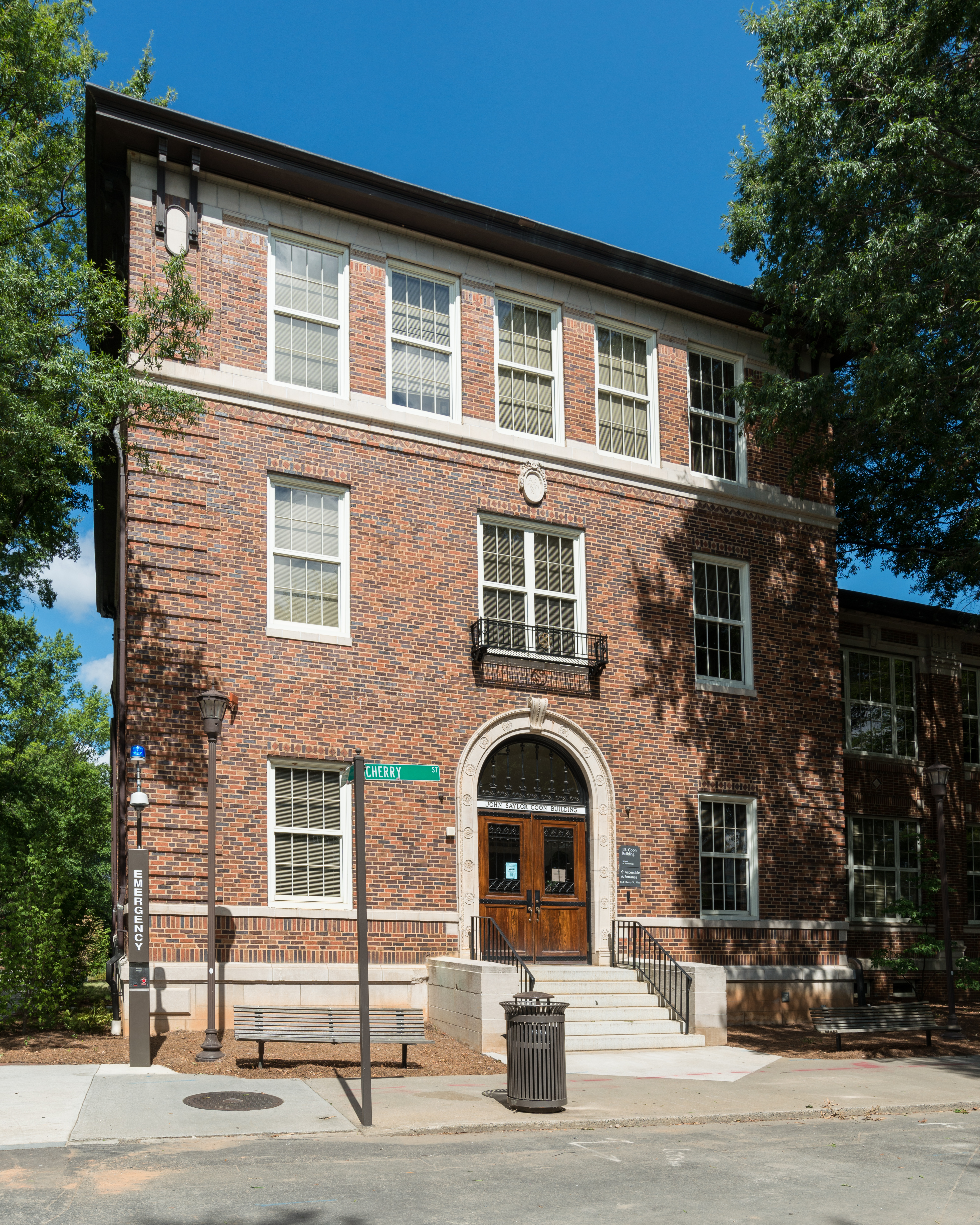 An east view of the J.S. Coon Building, housing the School of Psychology of Georgia Tech